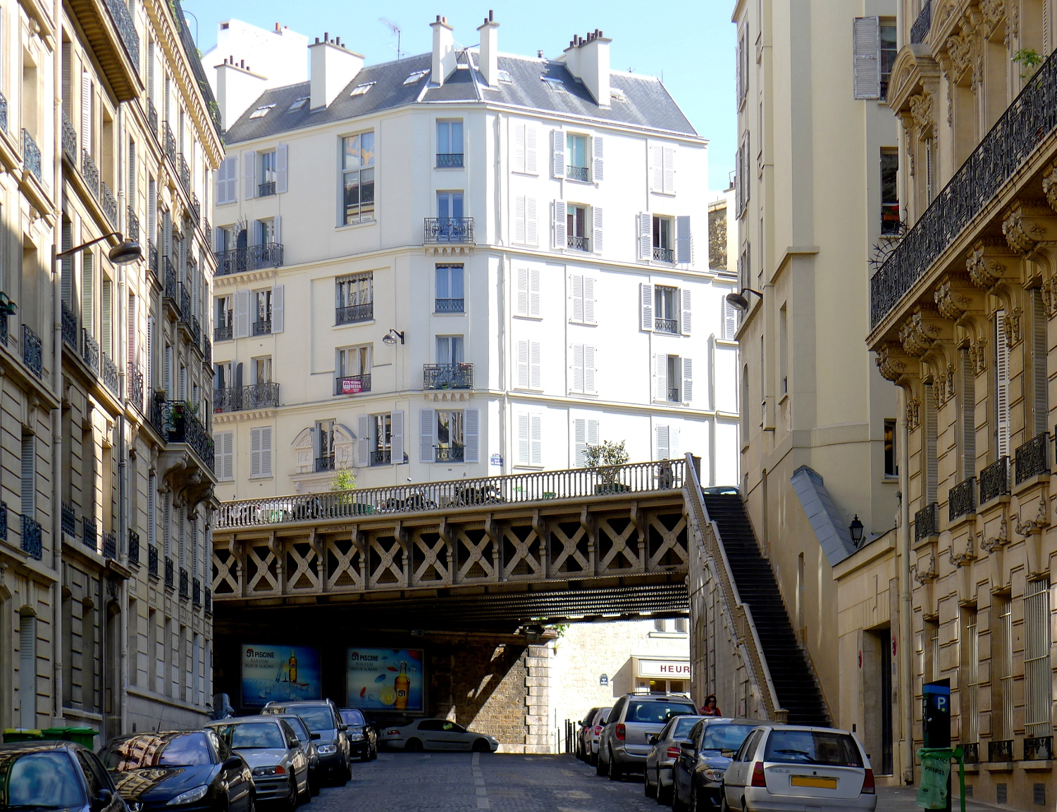 Portalis street - Paris